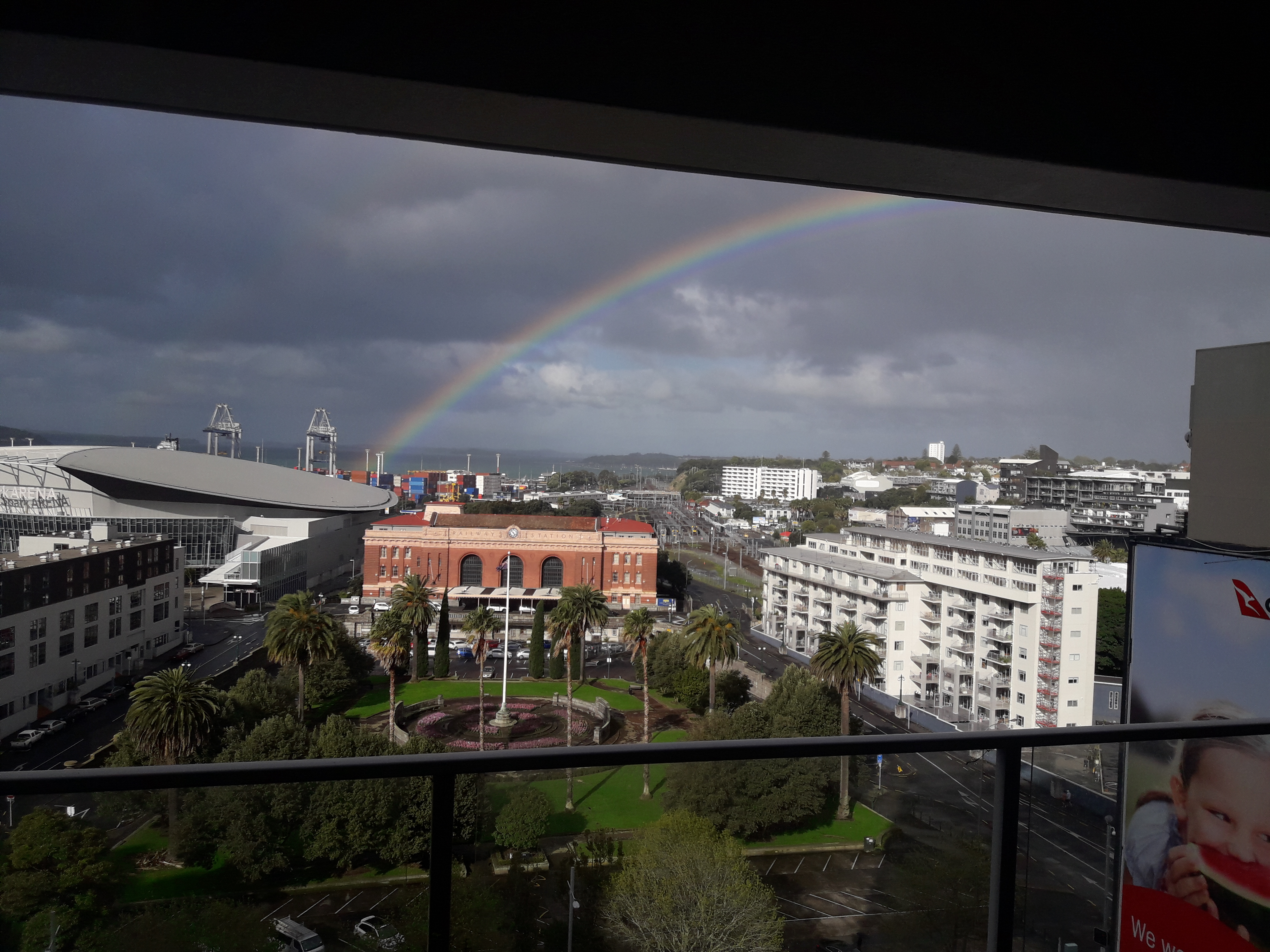 Grand Central Apartments Auckland in 2017 (former Auckland Railway Station)